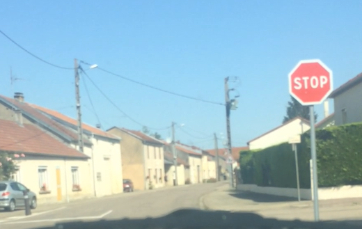 Stops